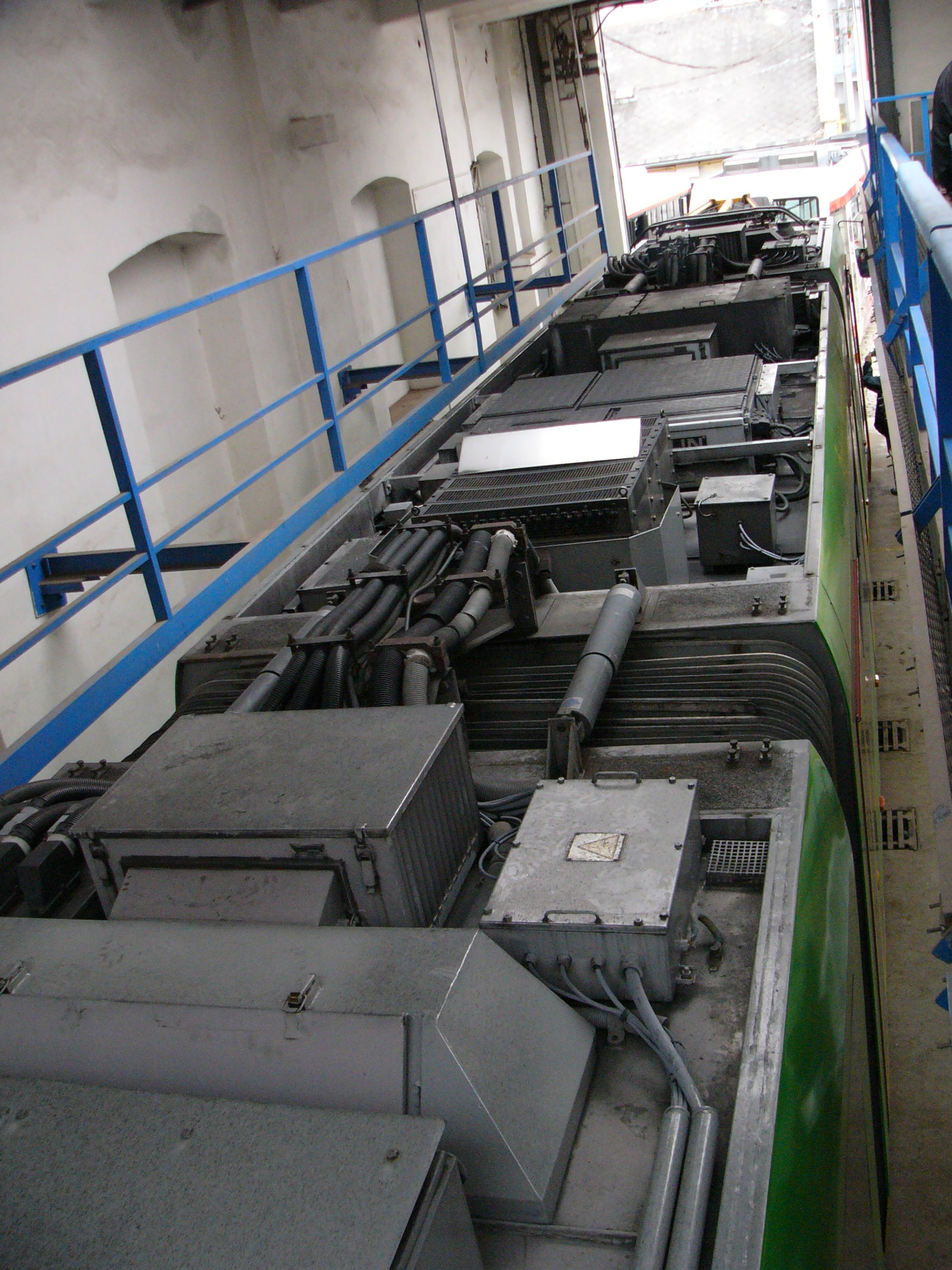 Roof of Tram Škoda 03 T (Škoda Astra). There is a regenerative brake ELIN on the roof. Photo taken in Olomouc (the Czech Republic).